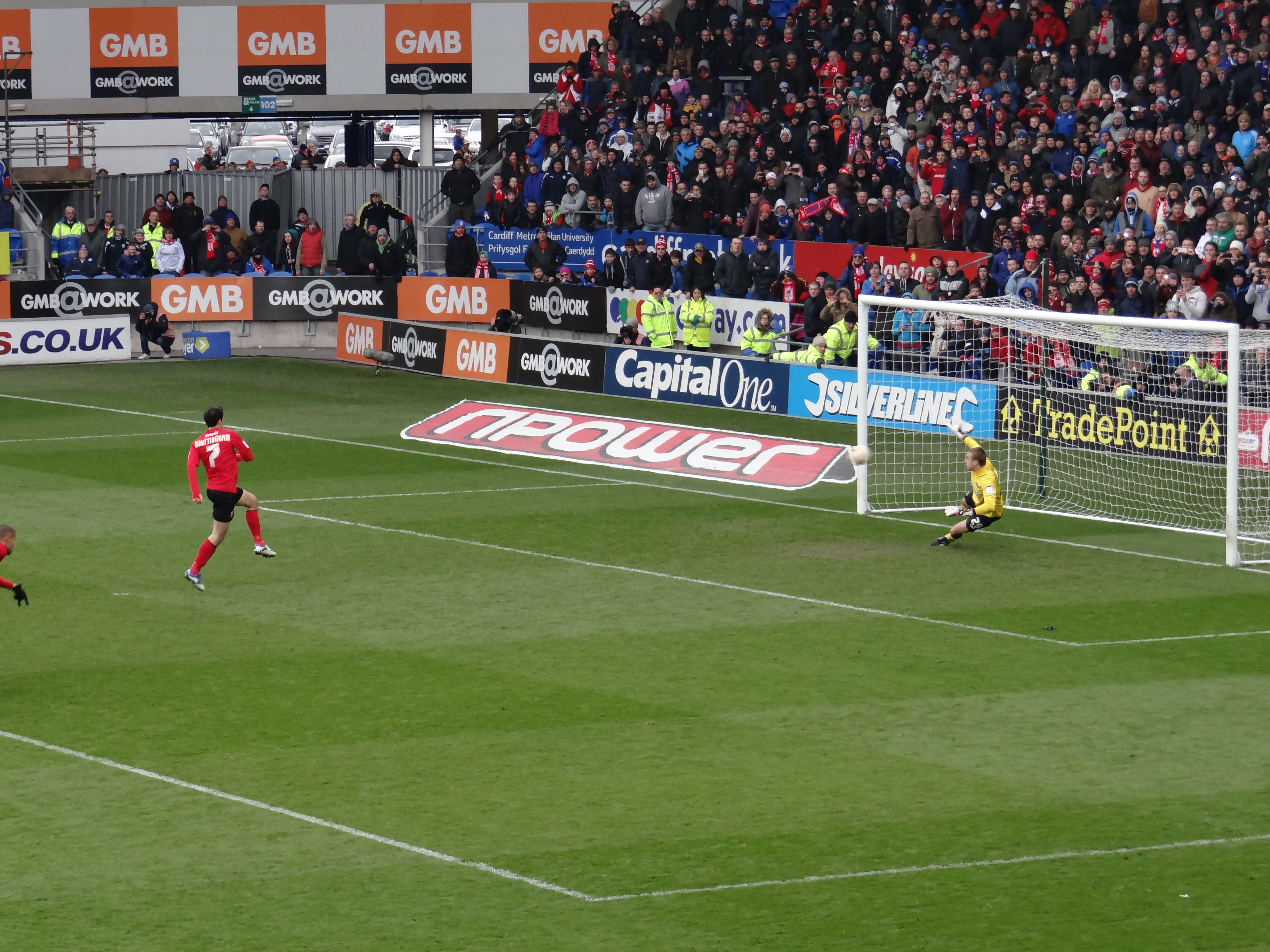 01/04/13 Cardiff City v Blackburn Rovers, Championship, Cardiff CIty Stadium, Cardiff, Wales